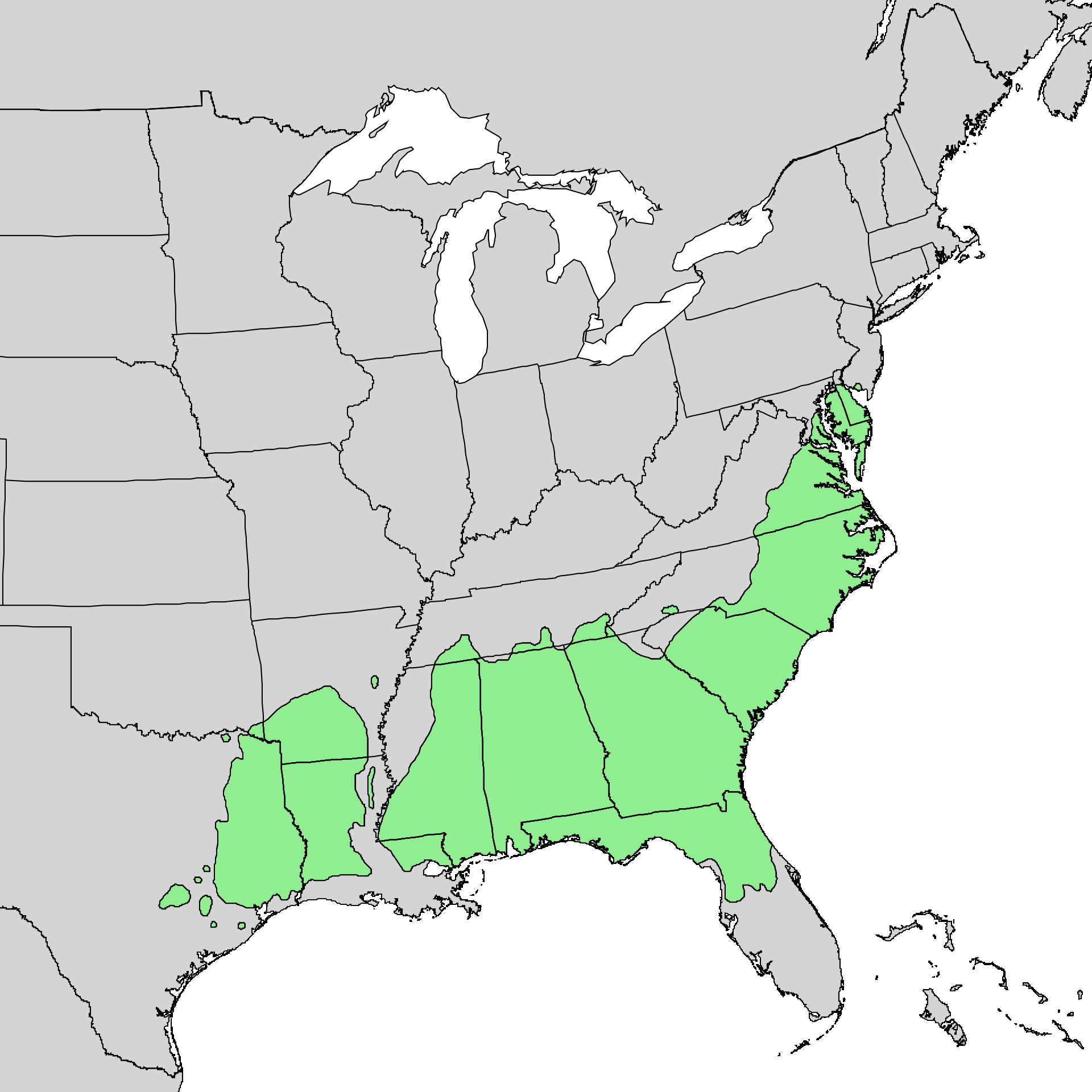 Natural distribution map for Pinus taeda